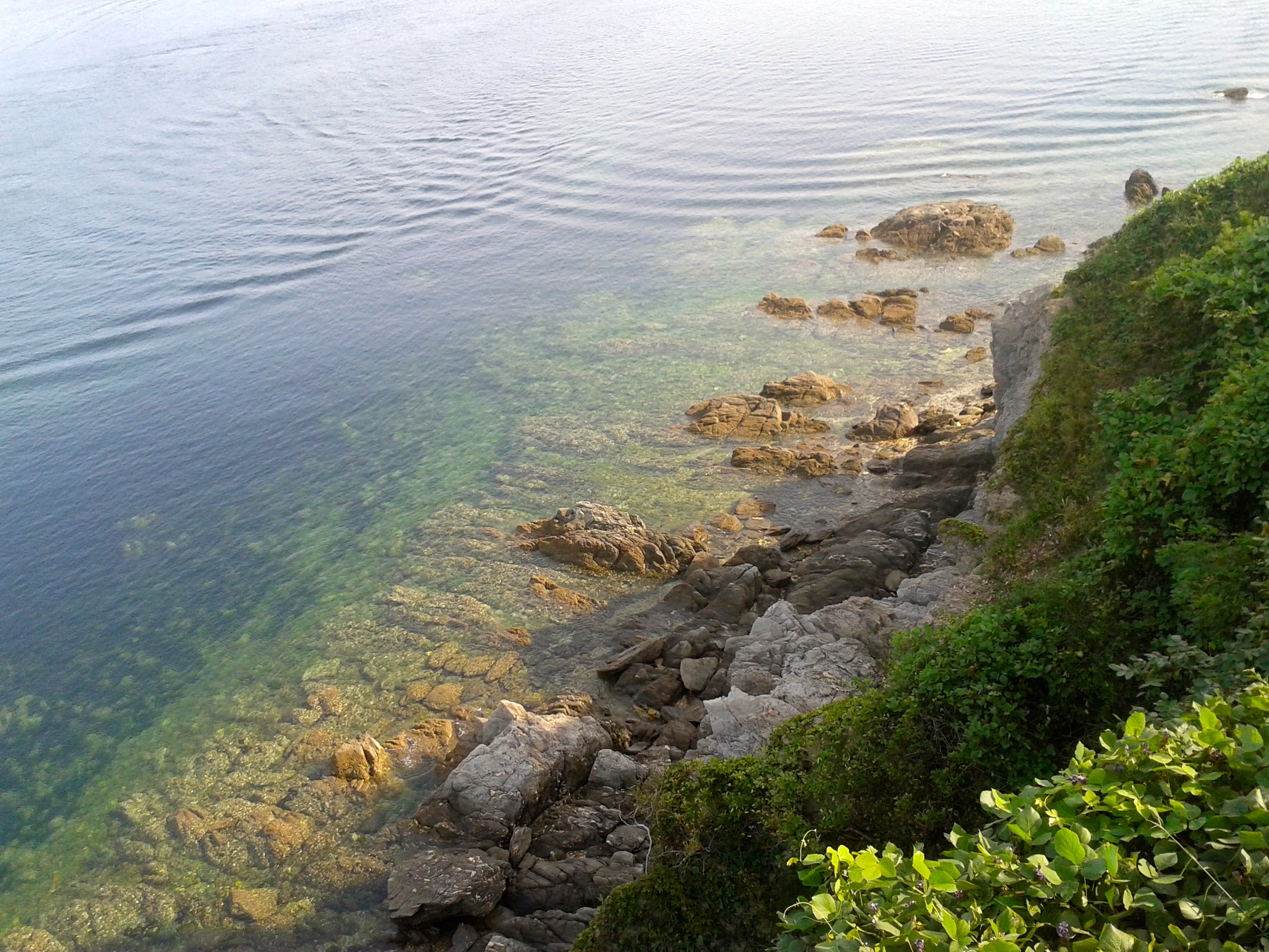 Xiaoshuikou (小水口) in Xiaochangshan Island (小长山岛), Changhai County (长海县), Dalian, China